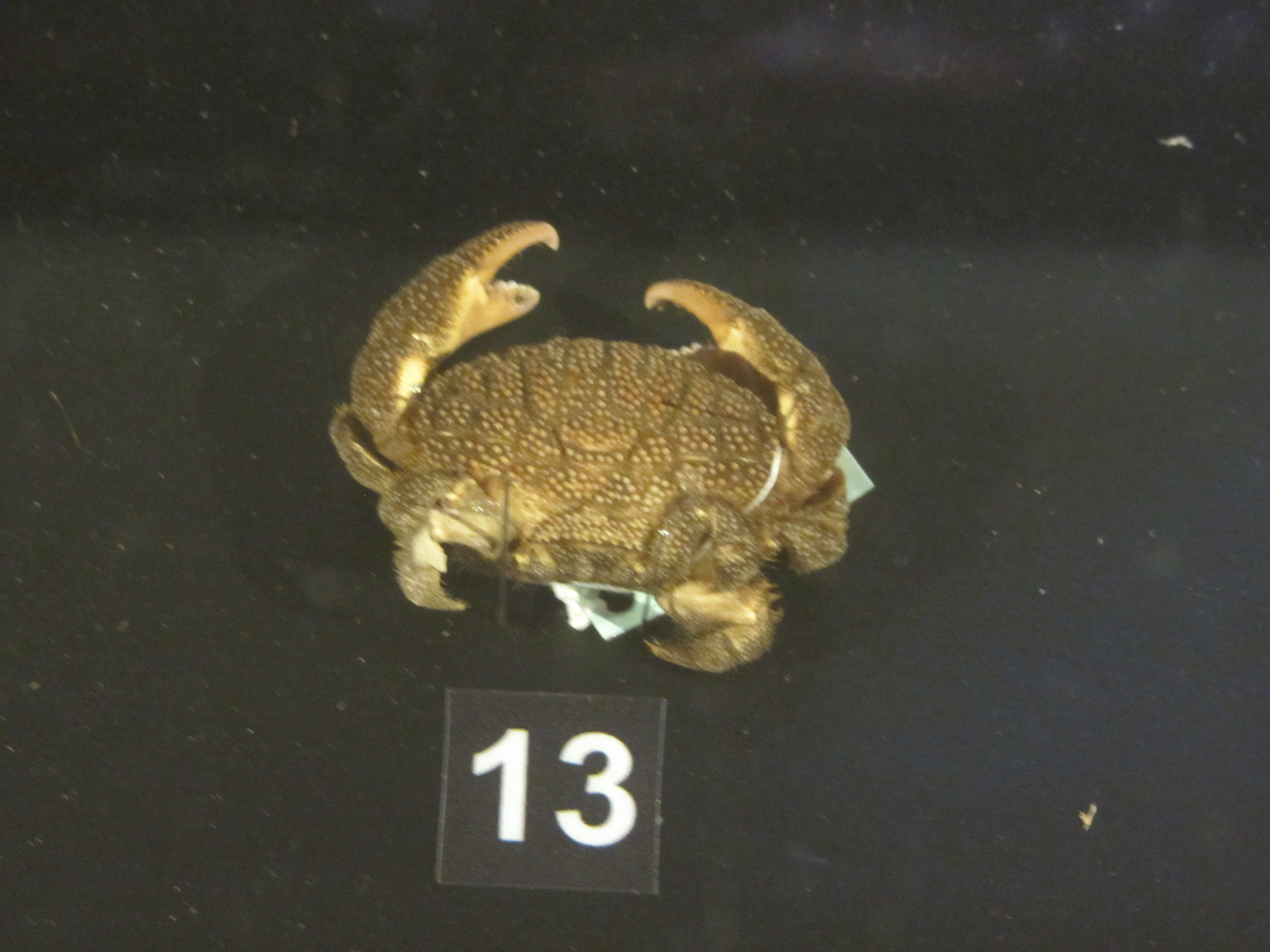 Specimen of Actaeodes tomentosa